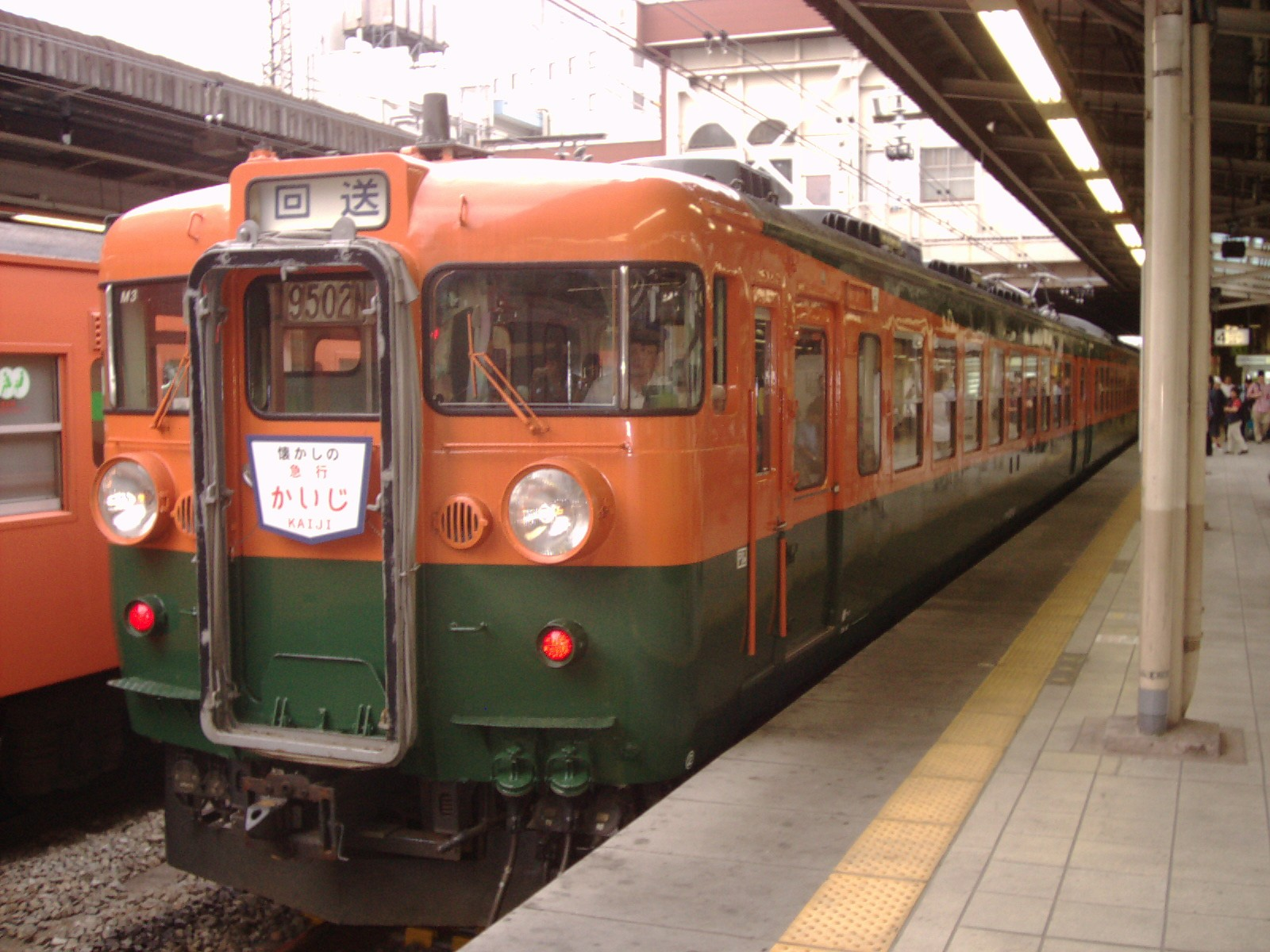 JR East 165 series EMU set M3 on a special Kaiji express service at Mitaka Station in Tokyo